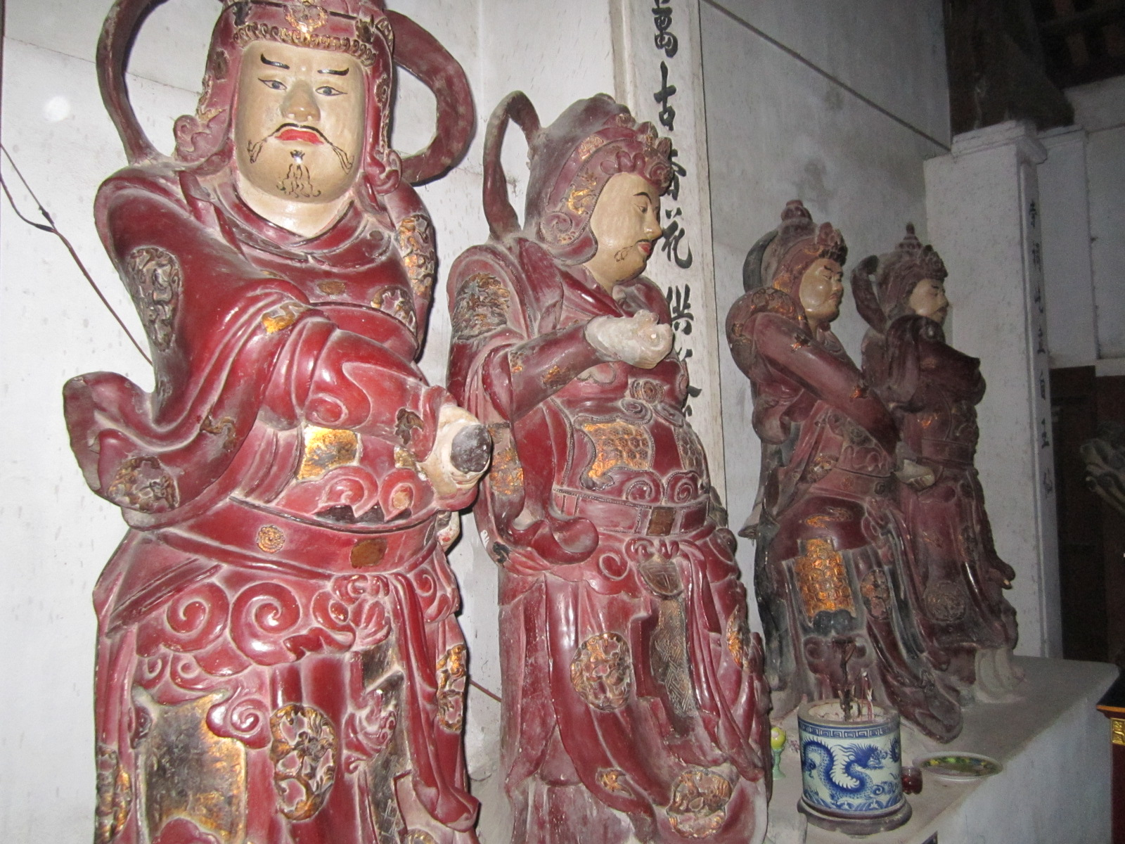 Four of the eight Buddhist Diamond Guardians of chùa Dâu, Bắc-ninhTiếng Việt: Bốn trong tám vị Kim-cương chùa Dâu, Bắc-ninh